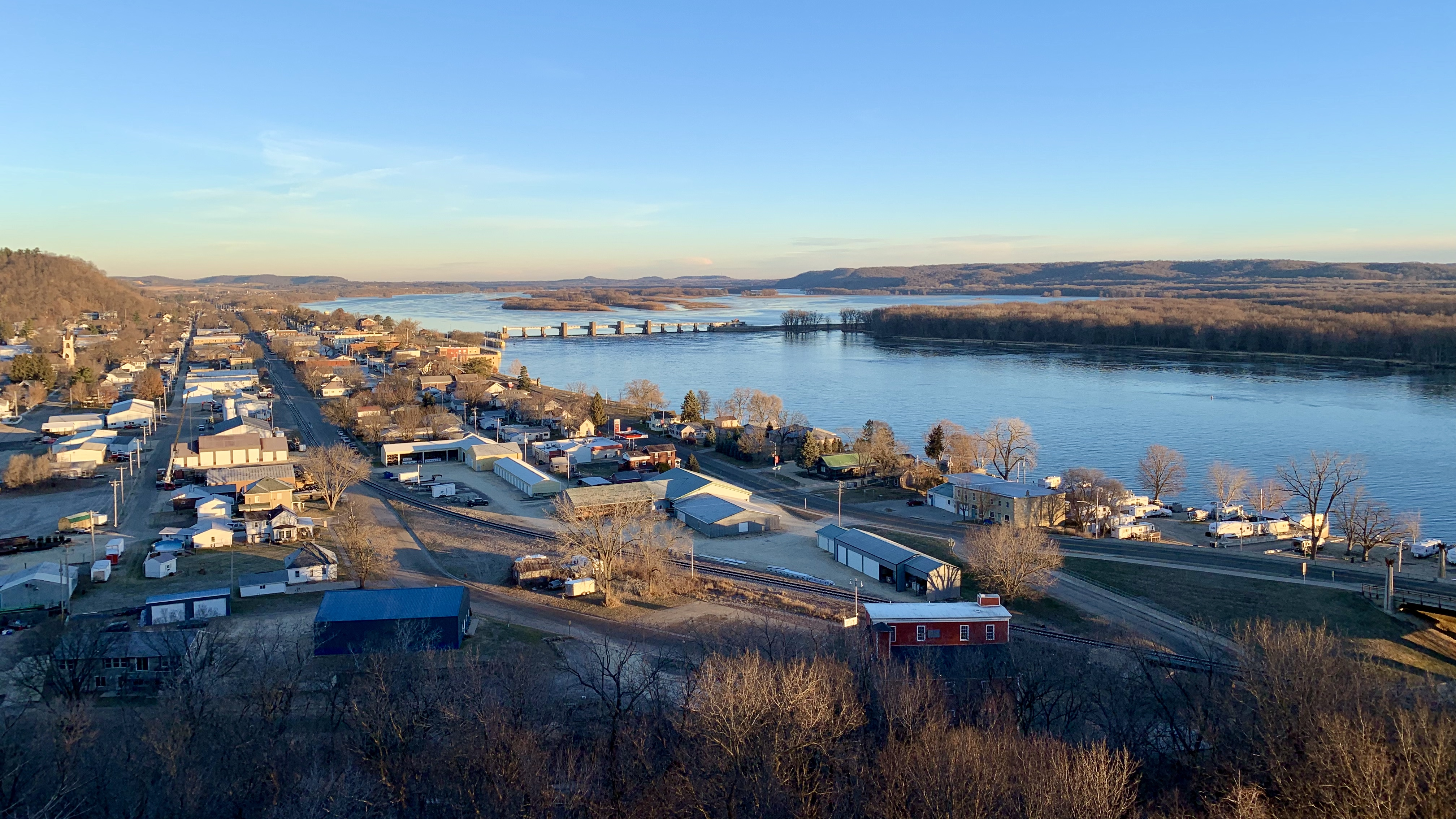 Downtown Bellevue, Lock & Dam No. 12, and the Mississippi River from the Bellevue State Park overlook.